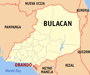 Map of Bulacan showing the location of Obando